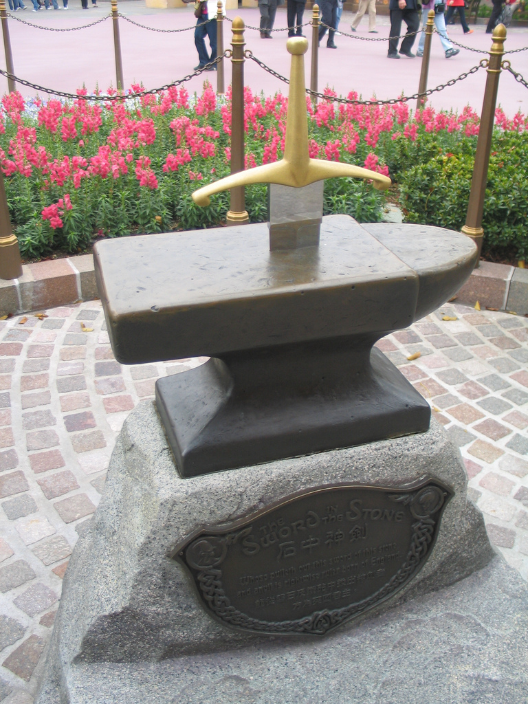 Hong Kong China Disneyland sword in the stone by Dave Quicky